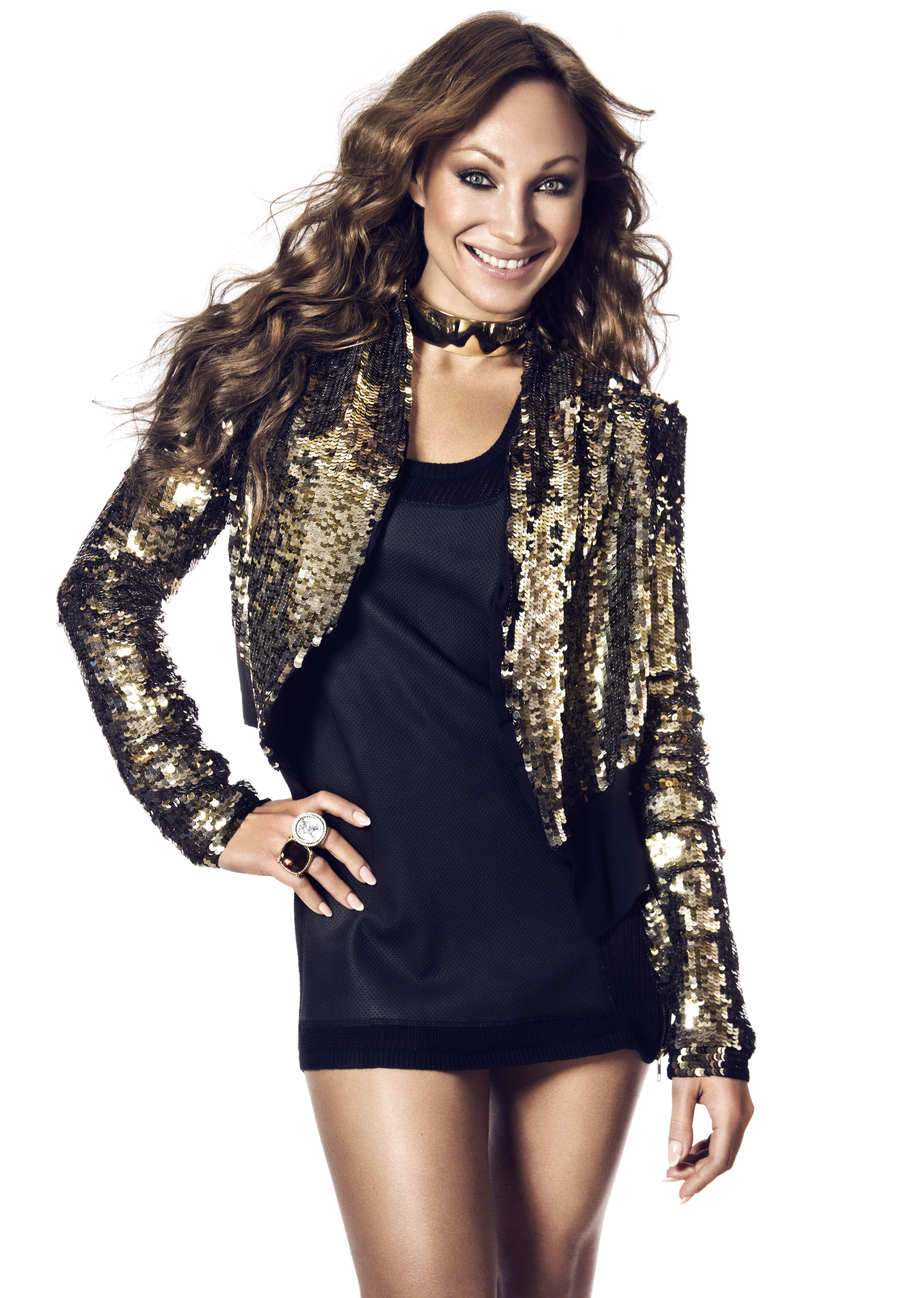 Swedish singer Charlotte Perrelli.